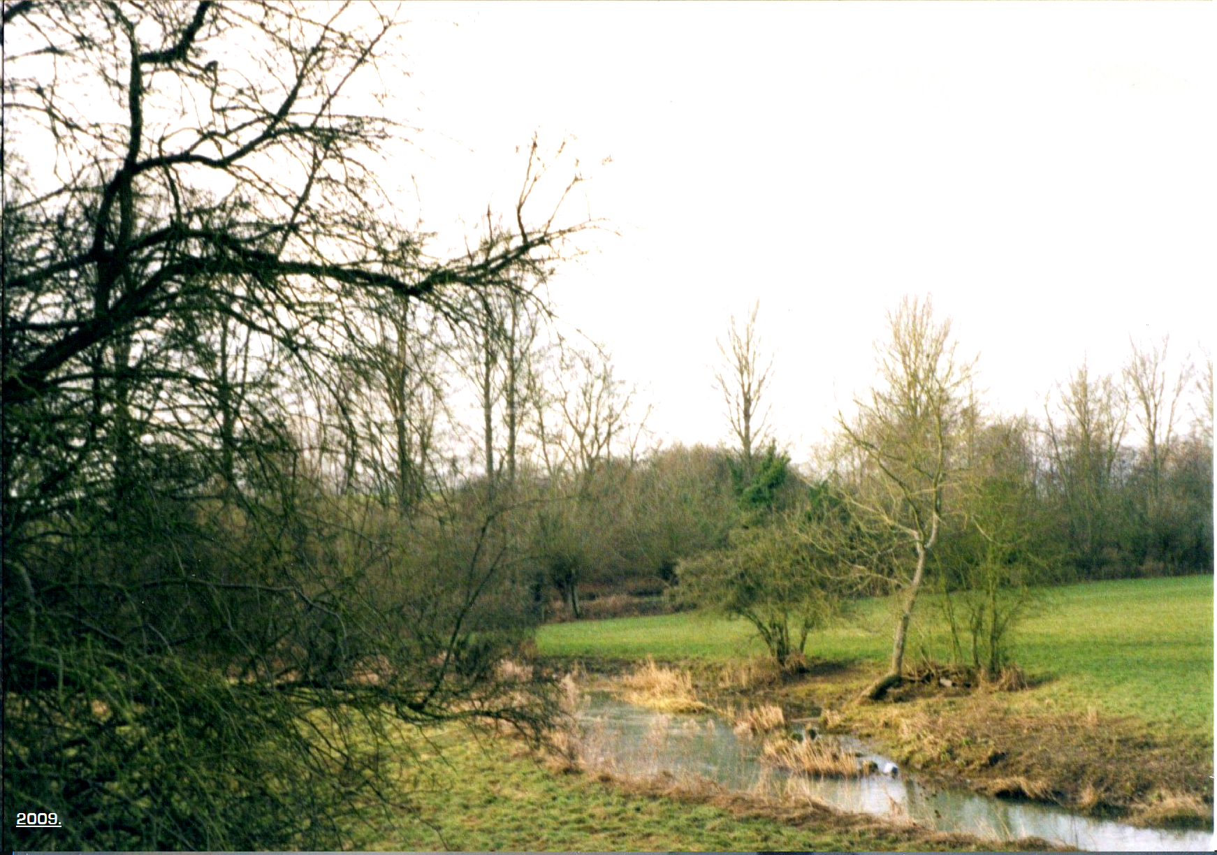 I took this picture of King' Sutton my self and release it for use on the Wikipeadia and public domain. The picture is date stamped.